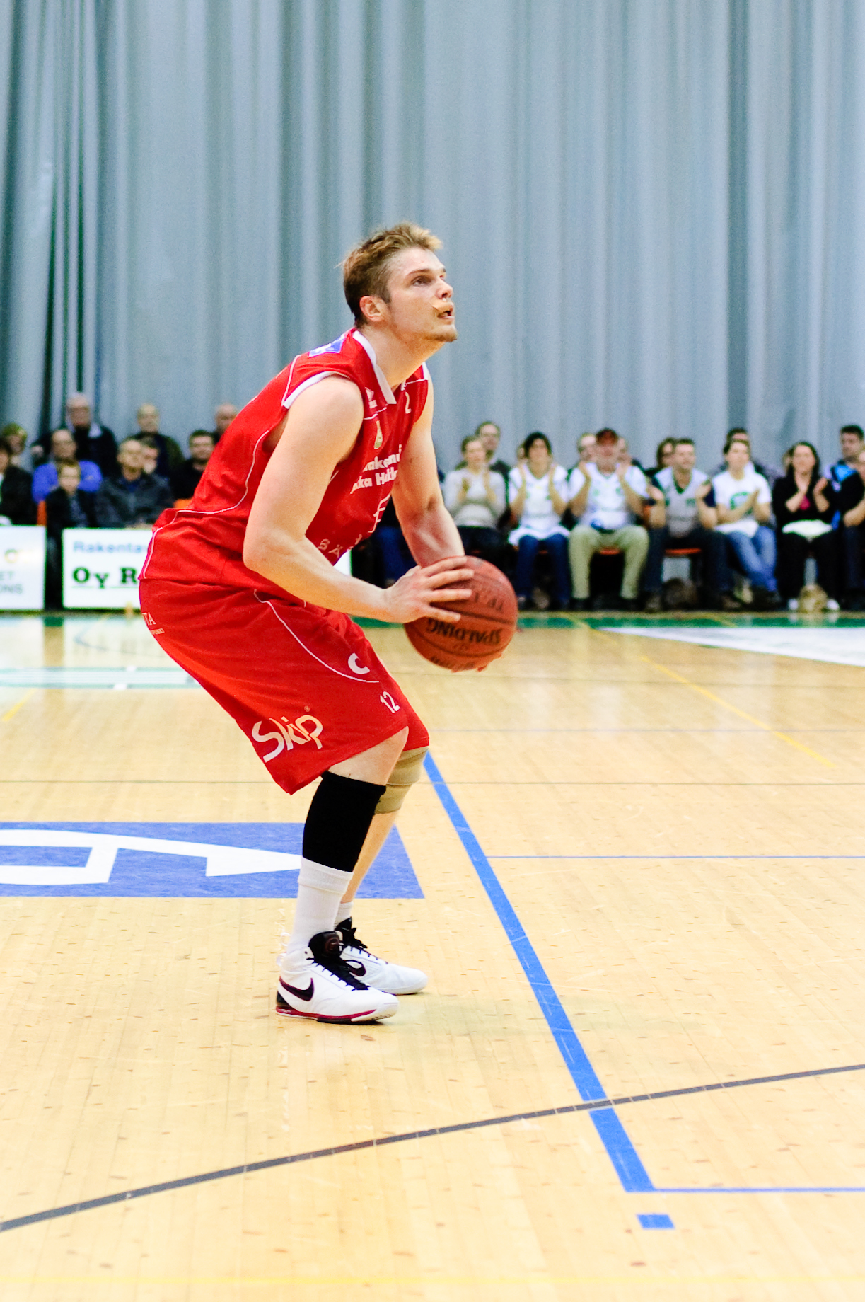 Finnish basketball player Sami Pekkola playing for Lappeenrannan NMKY against KTP-Basket at Steveco Areena in Kotka, Finland. KTP-Basket won the Finnish Basketball league playoff game 106-70 and advanced to the semi-final round by winning the series 3-0.